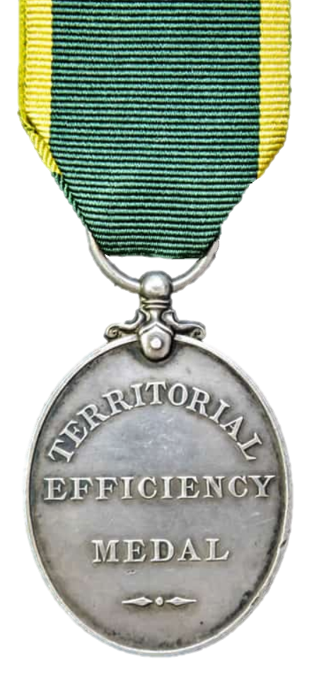 British award for 12 years service in the Territorial Army, awarded from 1921-30